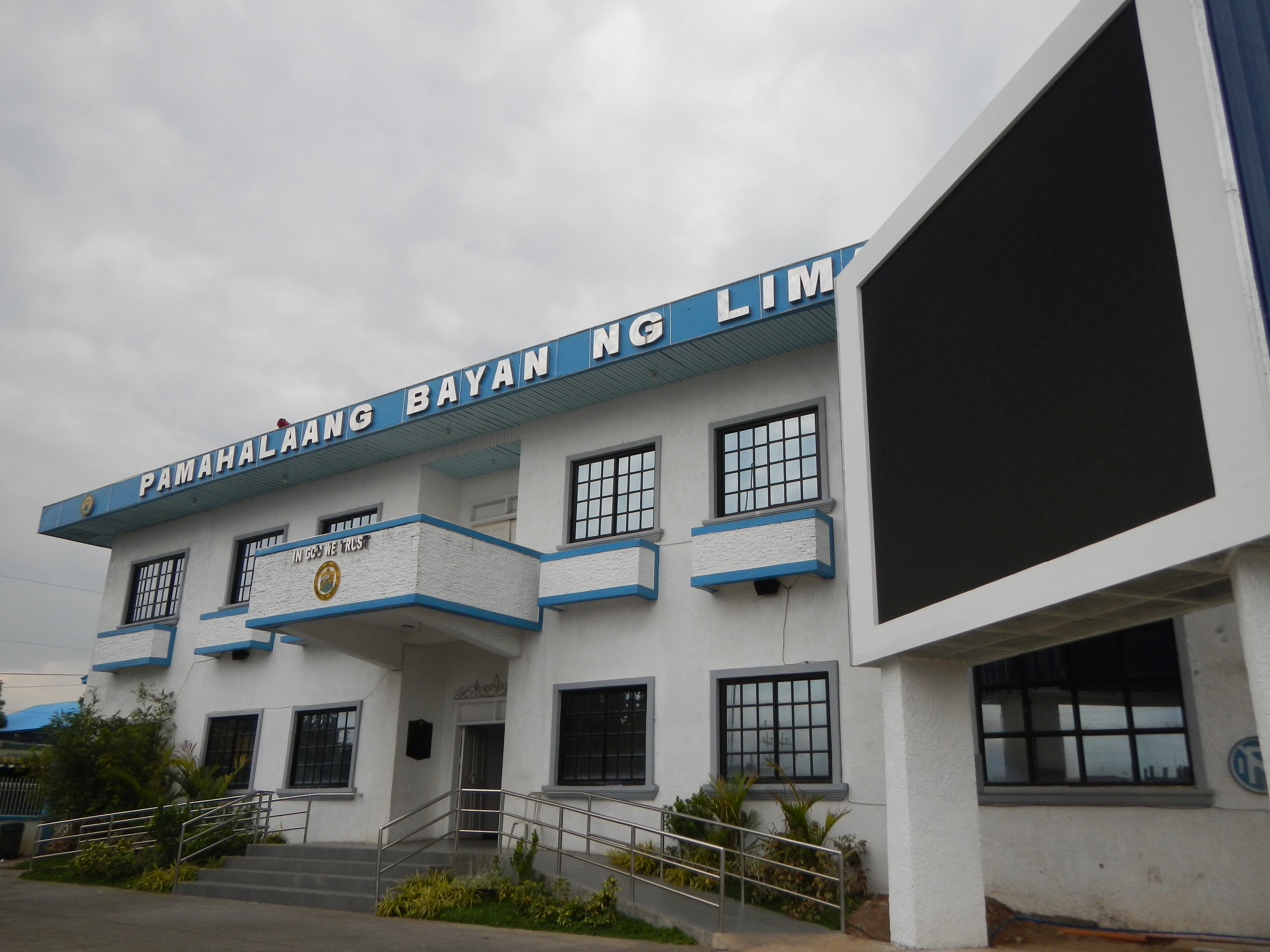 [1]Limay, Bataan[2][3][4]Coordinates: 14°32'33"N 120°32'40"E